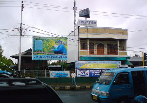 TV 5 Dimensi, commonly referred to as TV5D, is a North Sulawesi local television channel